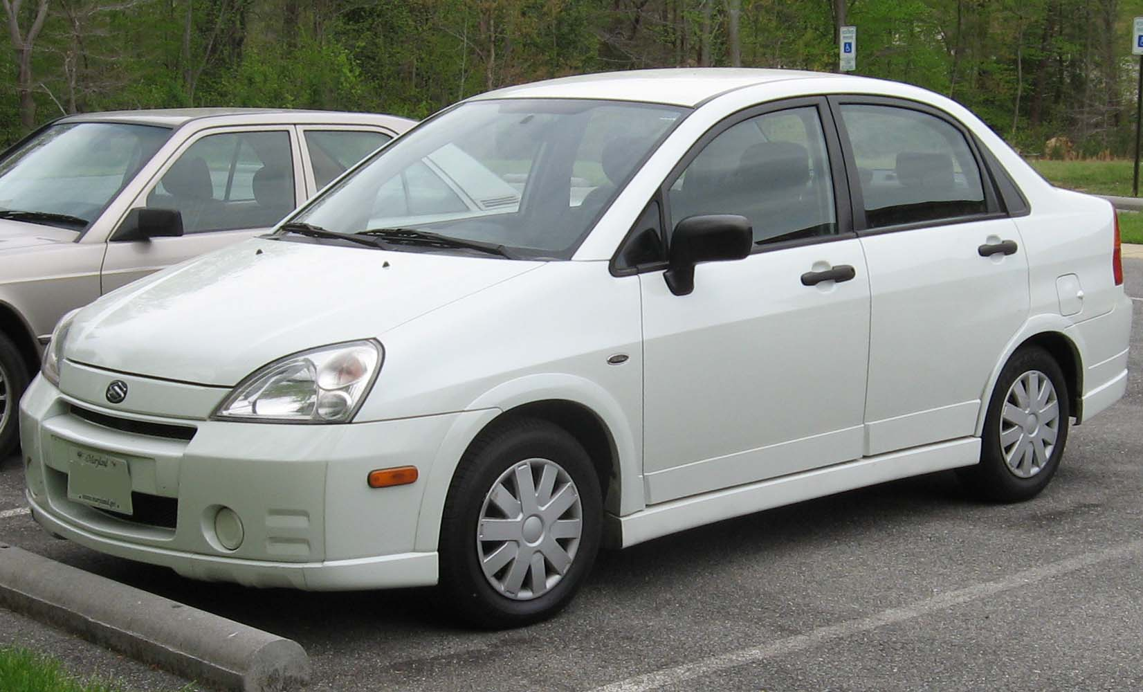 2002–2004 Suzuki Aerio photographed in USA.